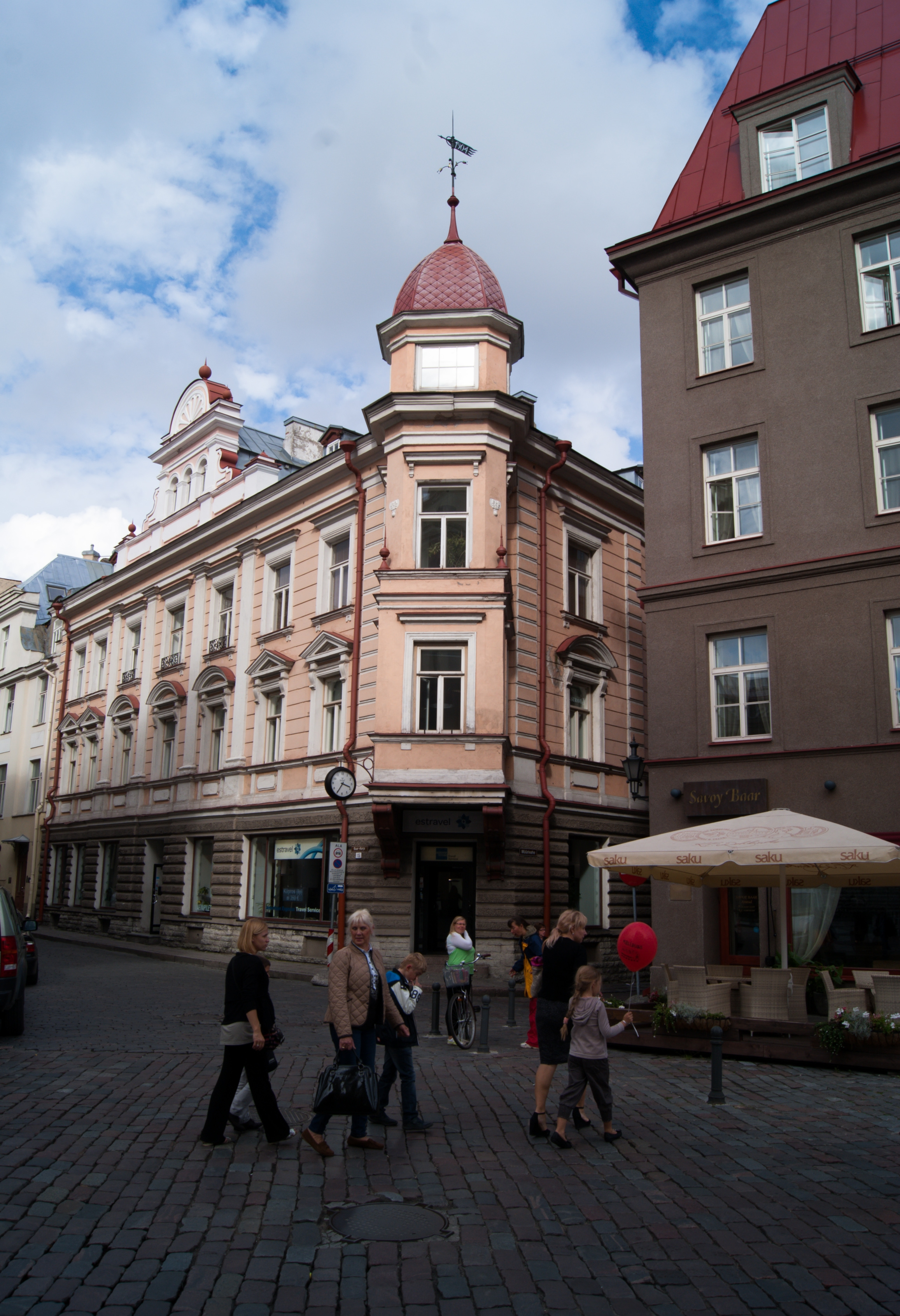 Tallinn, Estonia